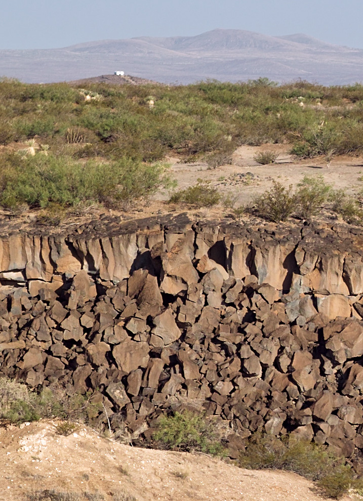 Basalt columns on the western lip of the Kilbourne Hole, 7:30 AM July 29, 2012